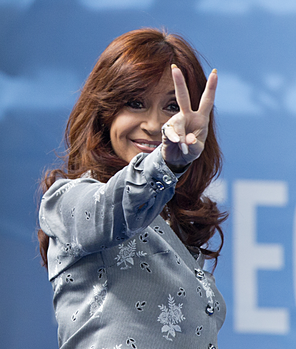 Buenos Aires, 20 de mayo 2015 En el marco de los Festejos de la Semana de Mayo la presidenta Cristina Fernández de Kirchner promulgó la Ley de creación de Ferrocarriles Argentinos. La presidenta estuvo acompañada en el estrado por el Ministro del Interior y Transporte, Florencio Randazzo, el Jefe de Gabinete, Aníbal Fernández, el secretario general de la Presidencia, Eduardo ‘Wado’ de Pedro, el ministro de Economía, Axel Kicillof, así como la ministra de Cultura de la Nación, Teresa Parodi. También la acompañaron gobernadores, legisladores, intendentes y trabajadores ferroviarios. Fotos: Silvina Frydlewsky / Ministerio de Cultura de la Nación